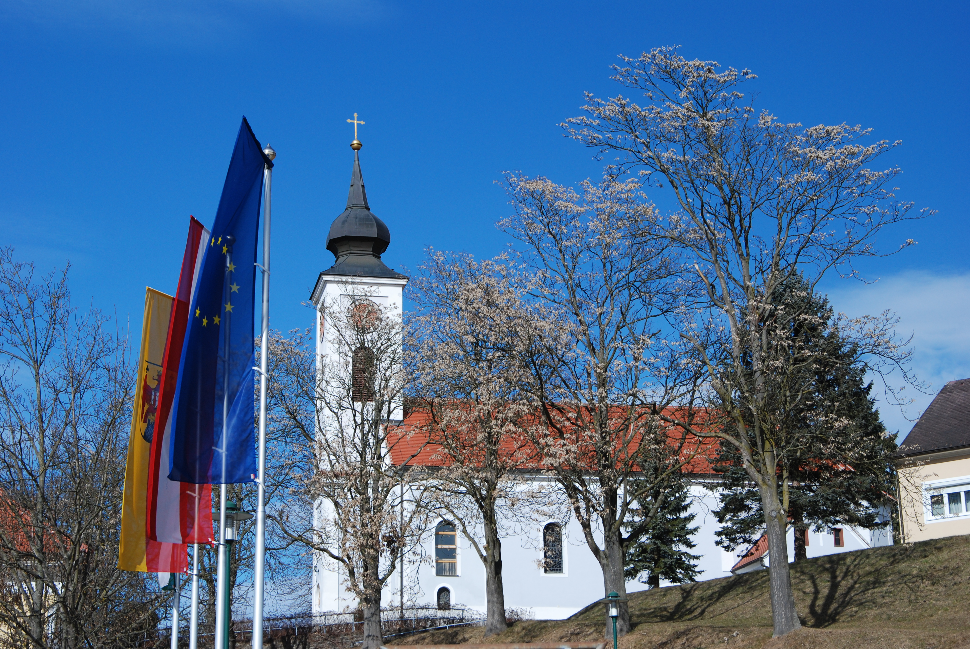 Church of the Exaltation of the Cross in Heiligenkreuz im Lafnitztal, Burgenland, Austria